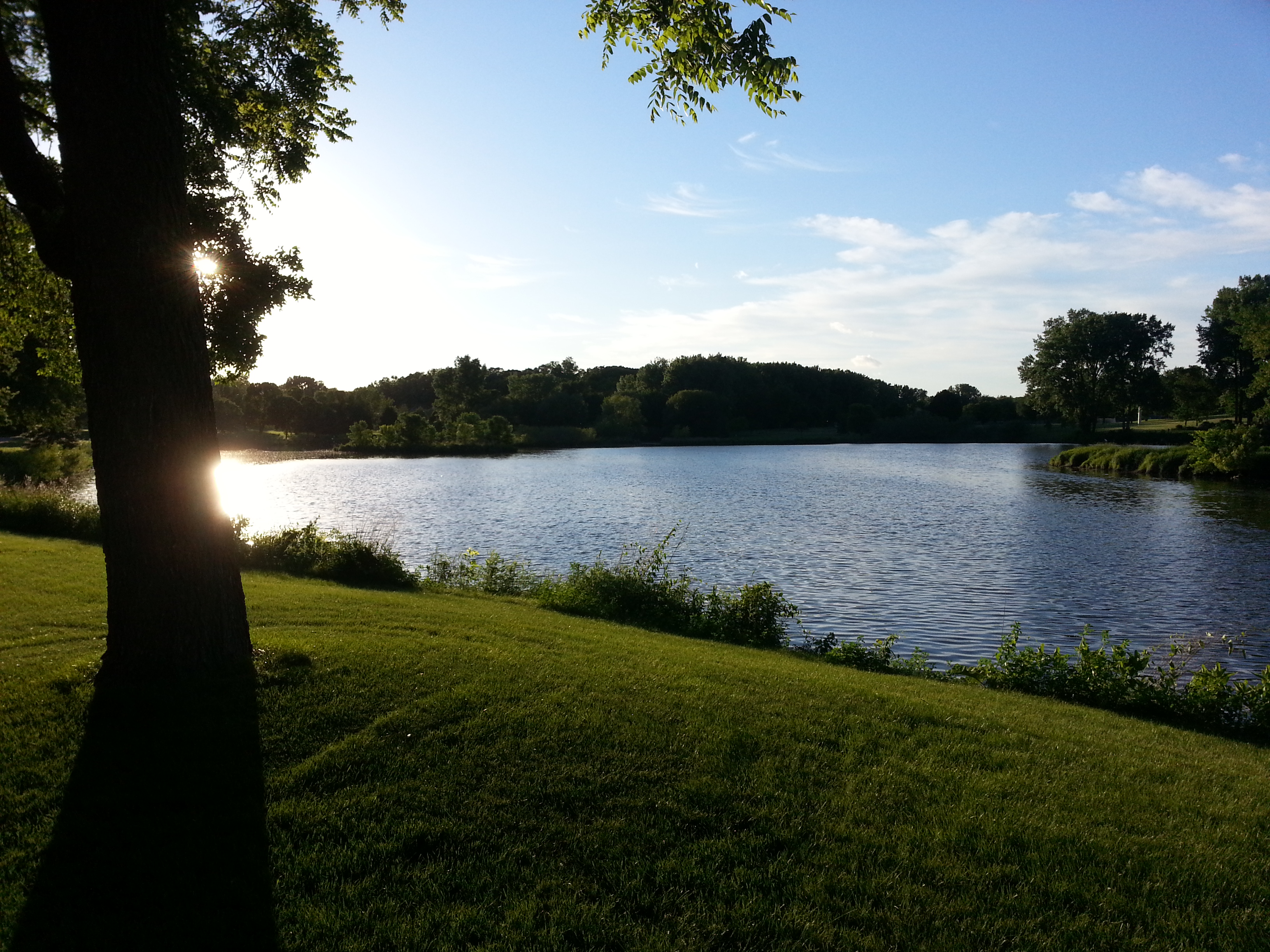 View overlooking Bassett Creek Park (also known as Jordan Area Park) in Crystal, MN